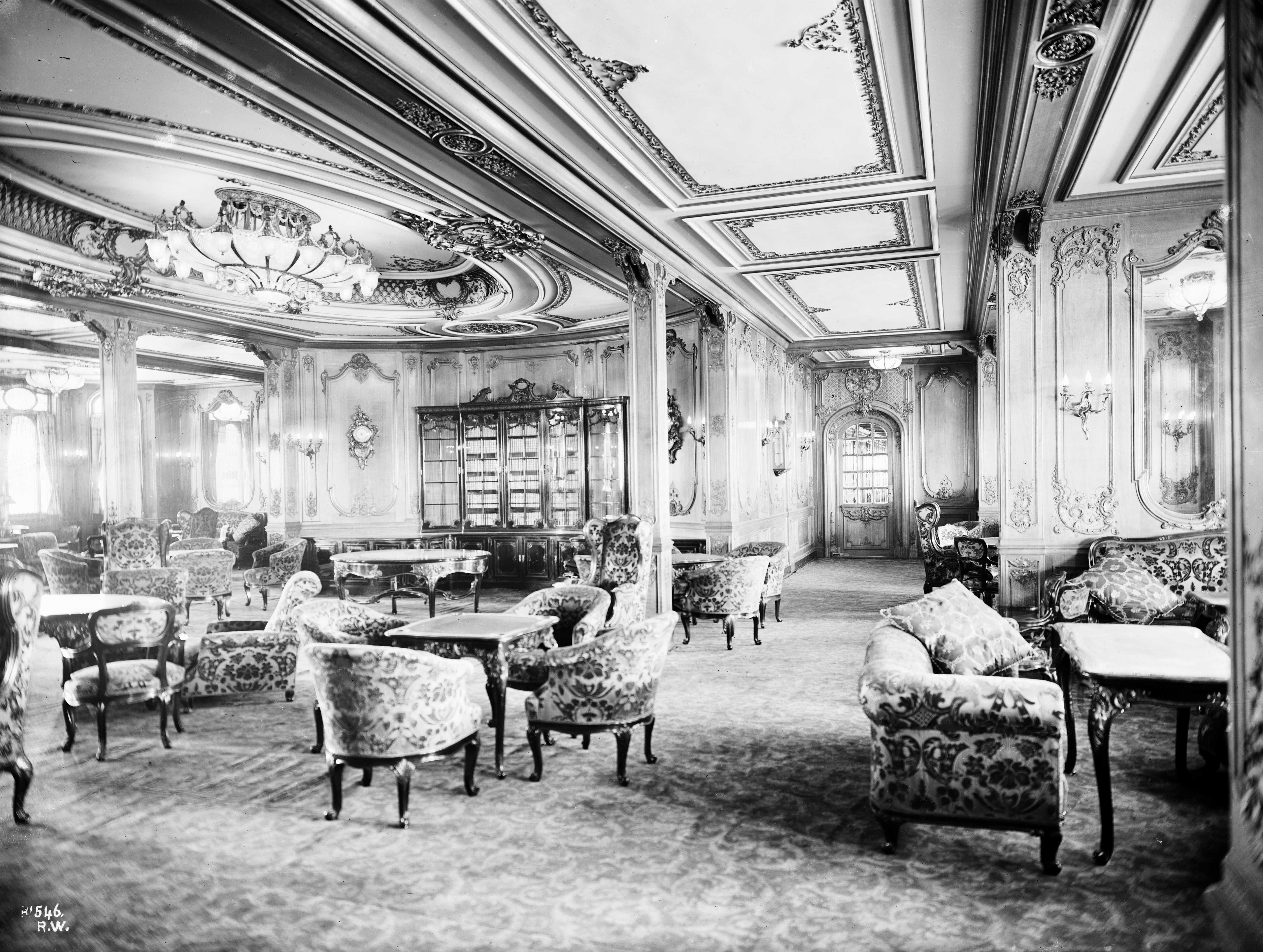 The first class lounge, decorated in Louis XIV style and inspired on the Palace of Versailles, was a cozy place where people could meet, have quick meals, talk and relax.